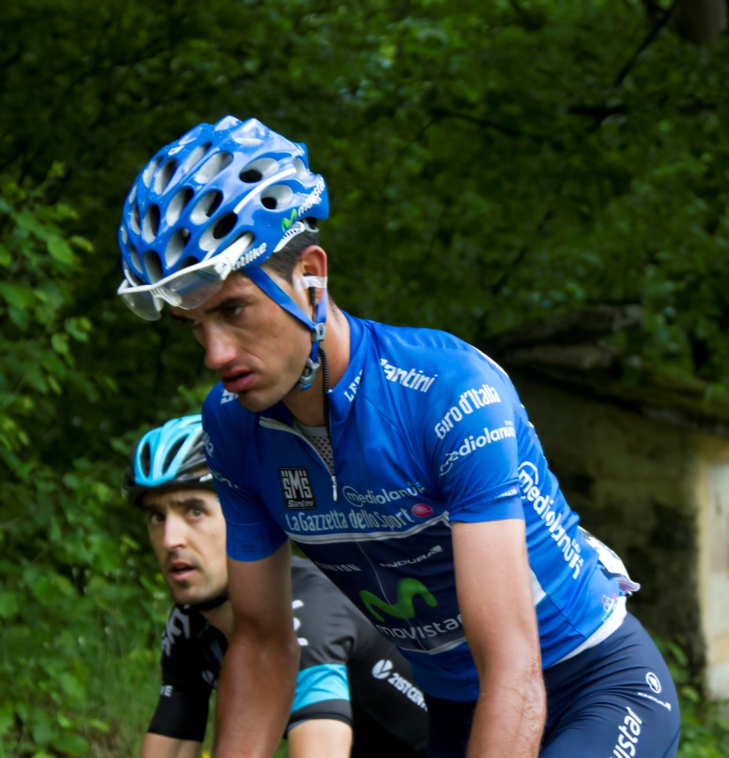 139 intxausti